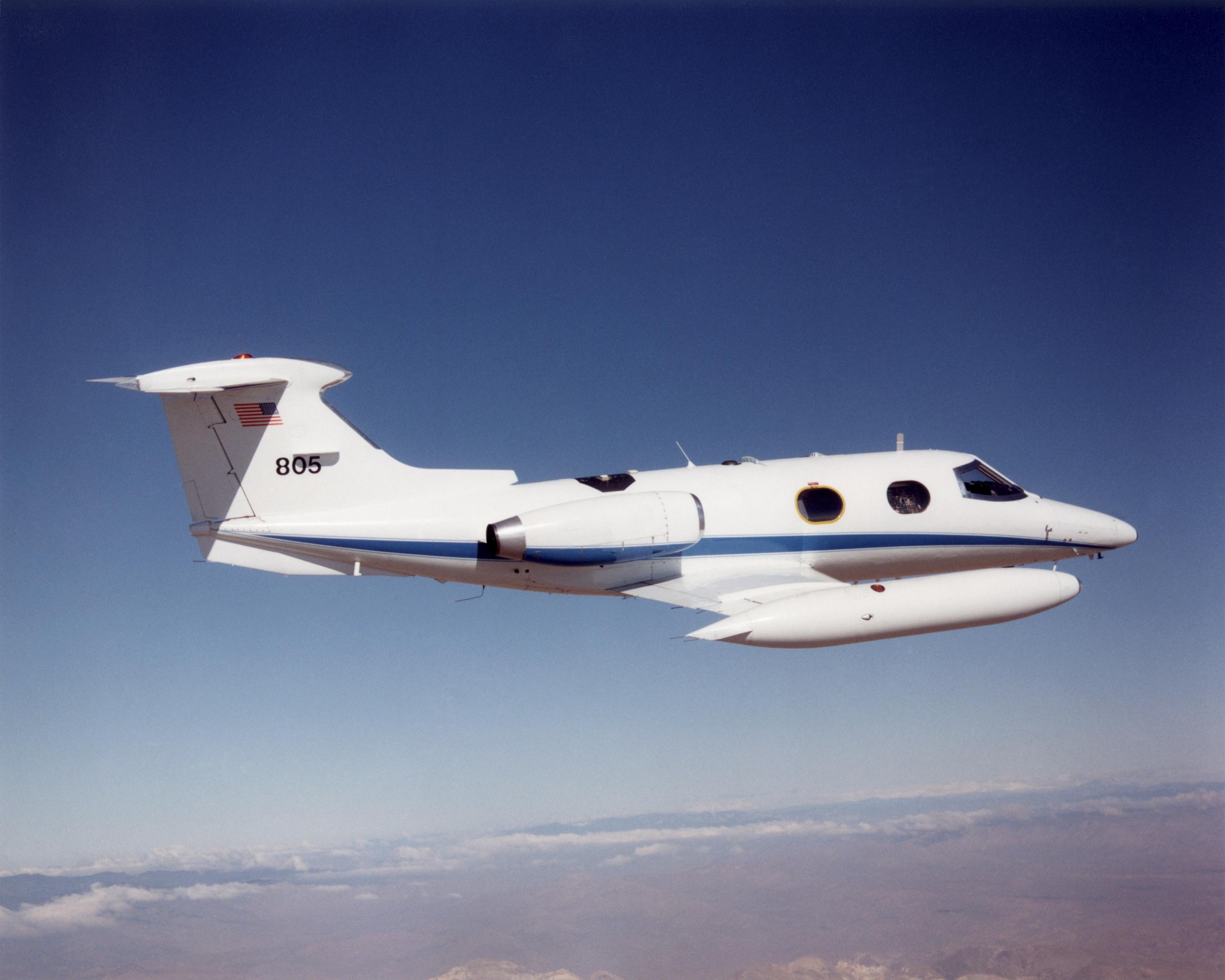 NASA Dryden Flight Research Center's Lear 24, tail number 805, in flight.